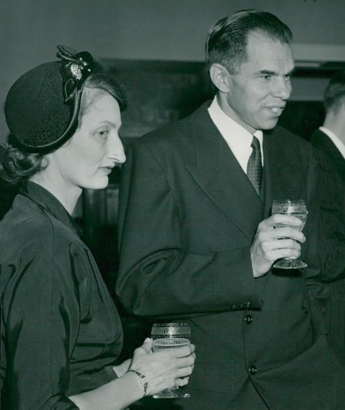 Nobel Prize winner Seaborg with his wife converses with Manne Siegbahn